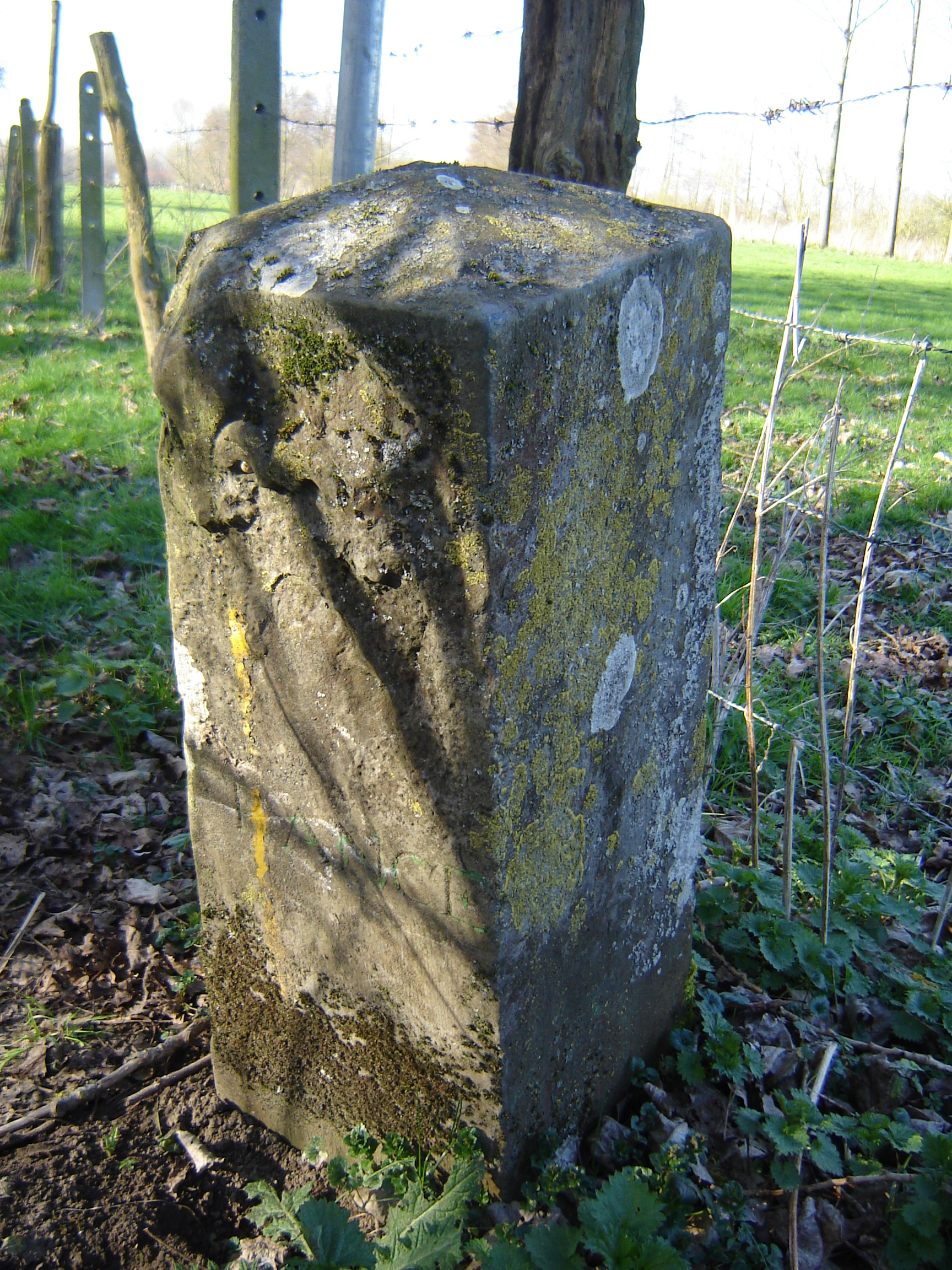 Boundary stone on the Belgian-French border. On the border between Bléharies, Brunehaut, Hainaut, Belgium and Maulde, Nord-Pas-de-Calais, France